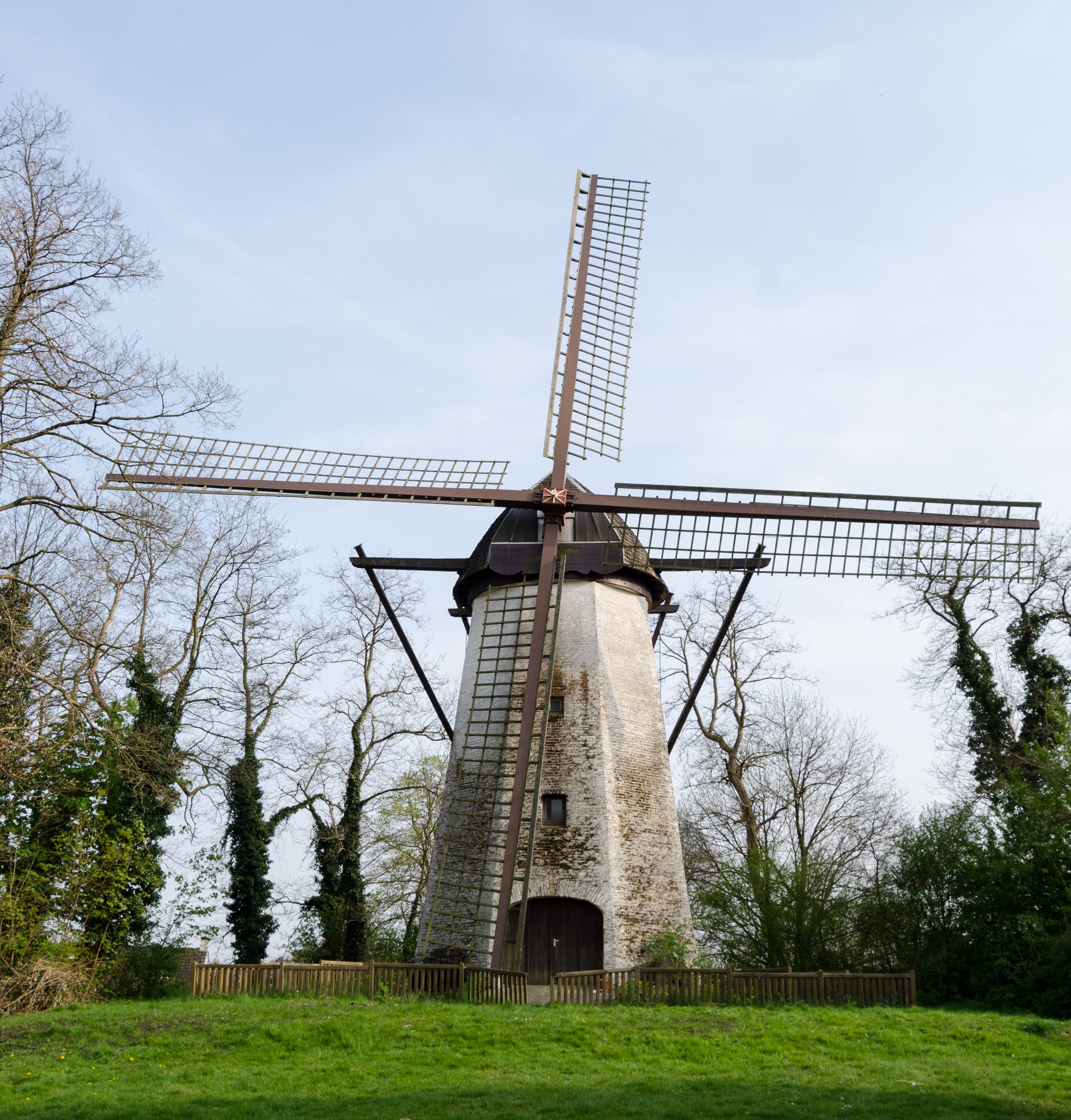 Duisburg (North Rhine-Westphalia, Germany) – borough Homberg/Ruhrort/Baerl, district Baerl – windmill